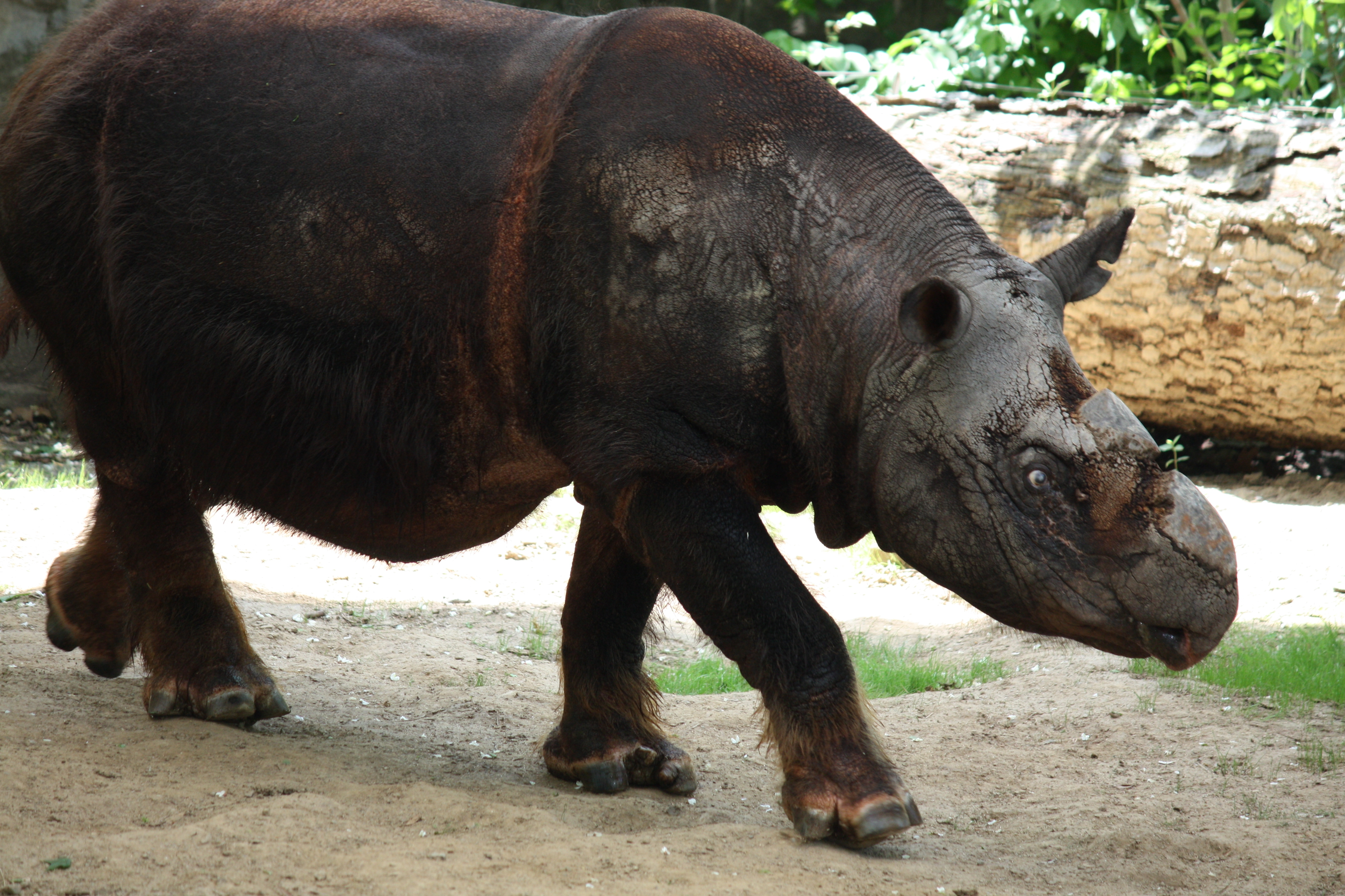 Sumatran Rhino Dicerorhinus sumatrensis at Cincinnati Zoo